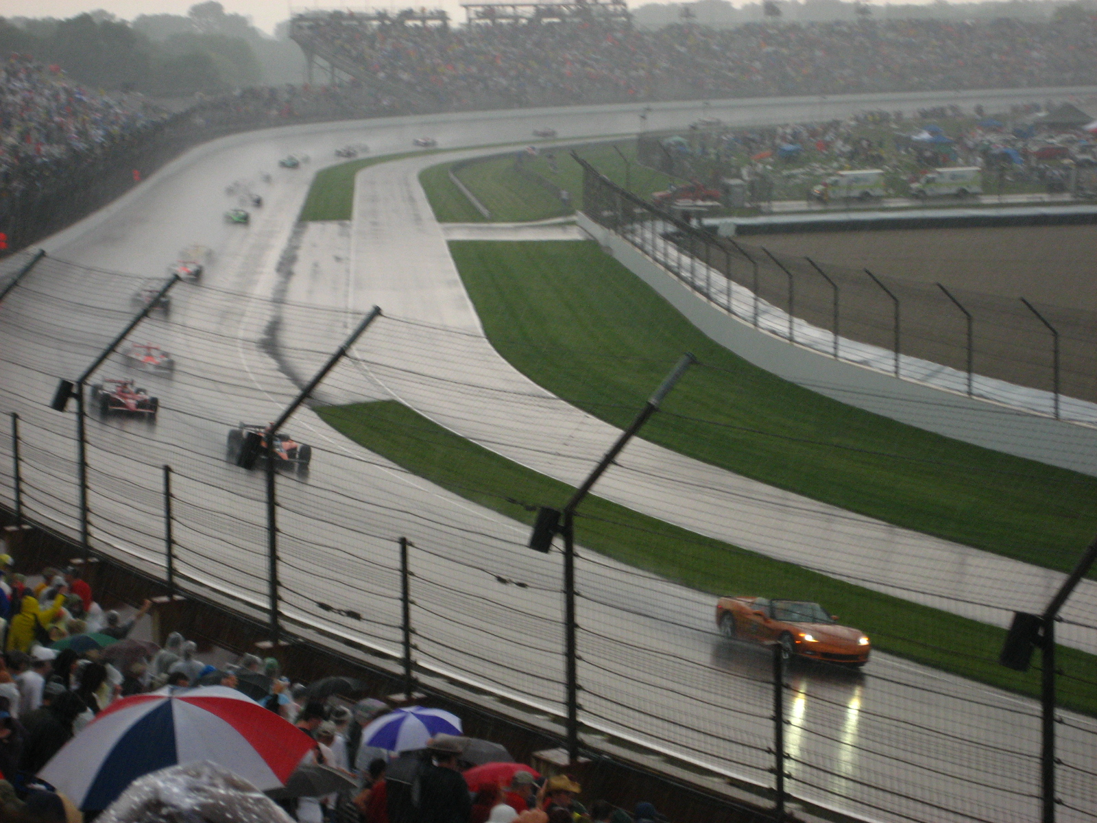 The field en route to the checkered flag due to heavy rain at the 2007 Indianapolis 500